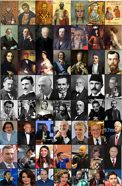 Collage of photos of 56 Orthodox Christians known figures - Anyone can use these original photos themselves among others and make another collage of (Christians) themselves or remix as they wish, as long as they give the correct source and usage/Copyright given. Dont delete the photos, if one becomes unusable due to copyright, please dont delete, just replace the photo or i will.